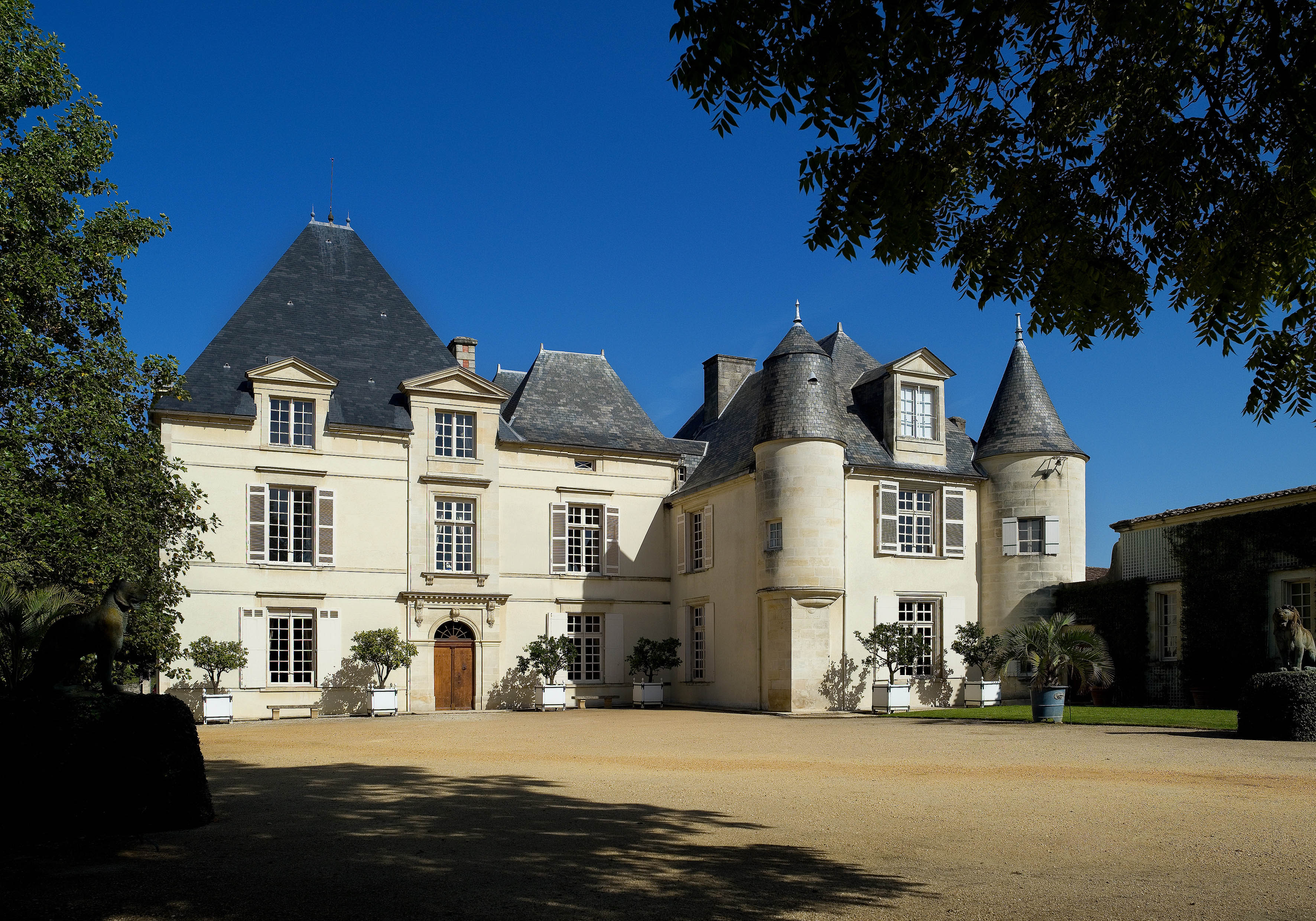 Image of the exterior of the Bordeaux wine estate Chateau Haut Brion.